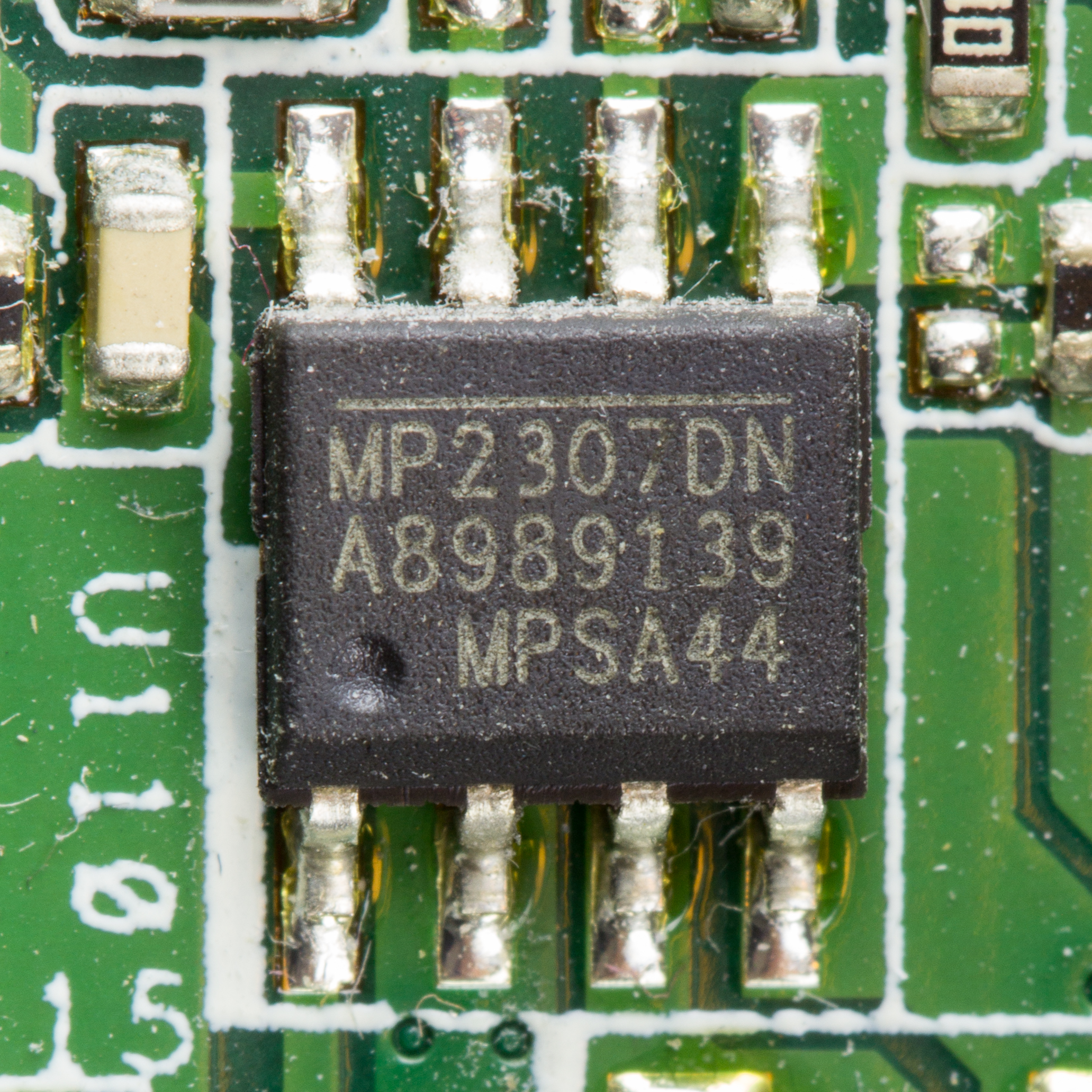 Cisco EPC3212 - MPS MP2307DN - 3A, 23V, 340KHz Synchronous Rectified Step-Down Converter. Package: SOIC8N